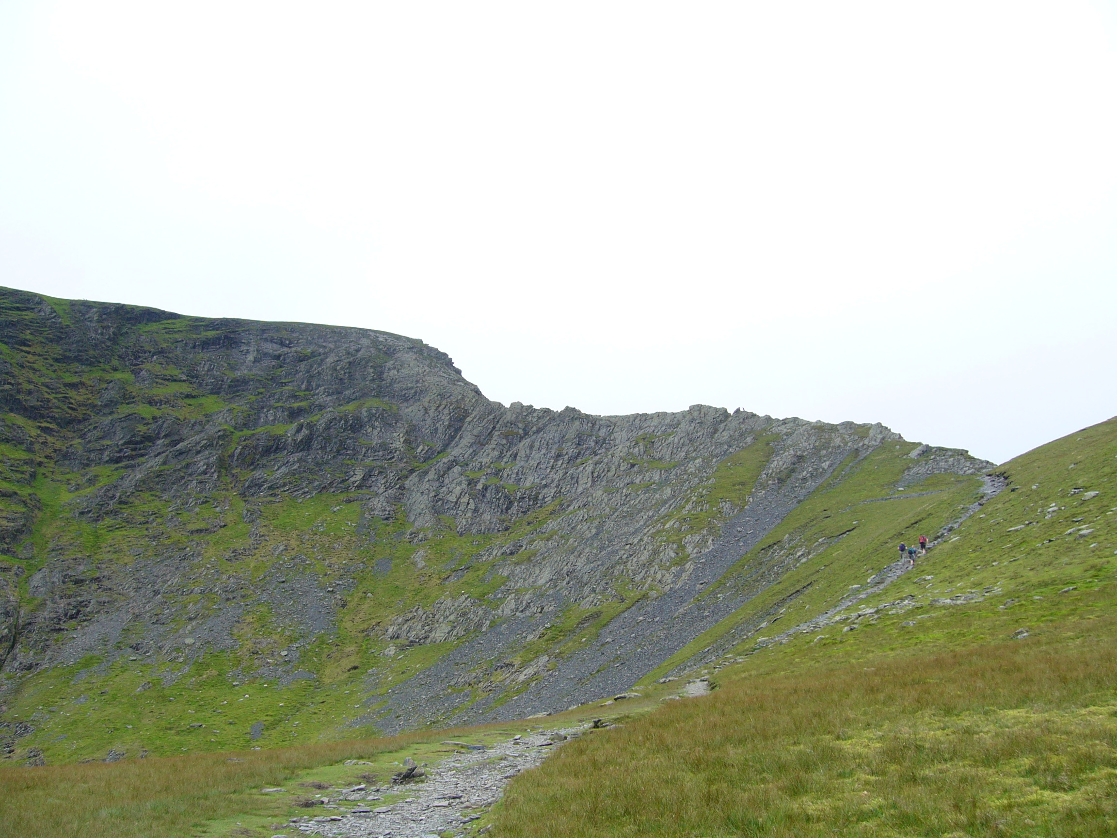 Facing Sharp Edge from Scales Tarn, Blencathra, Lake District National Park, UK